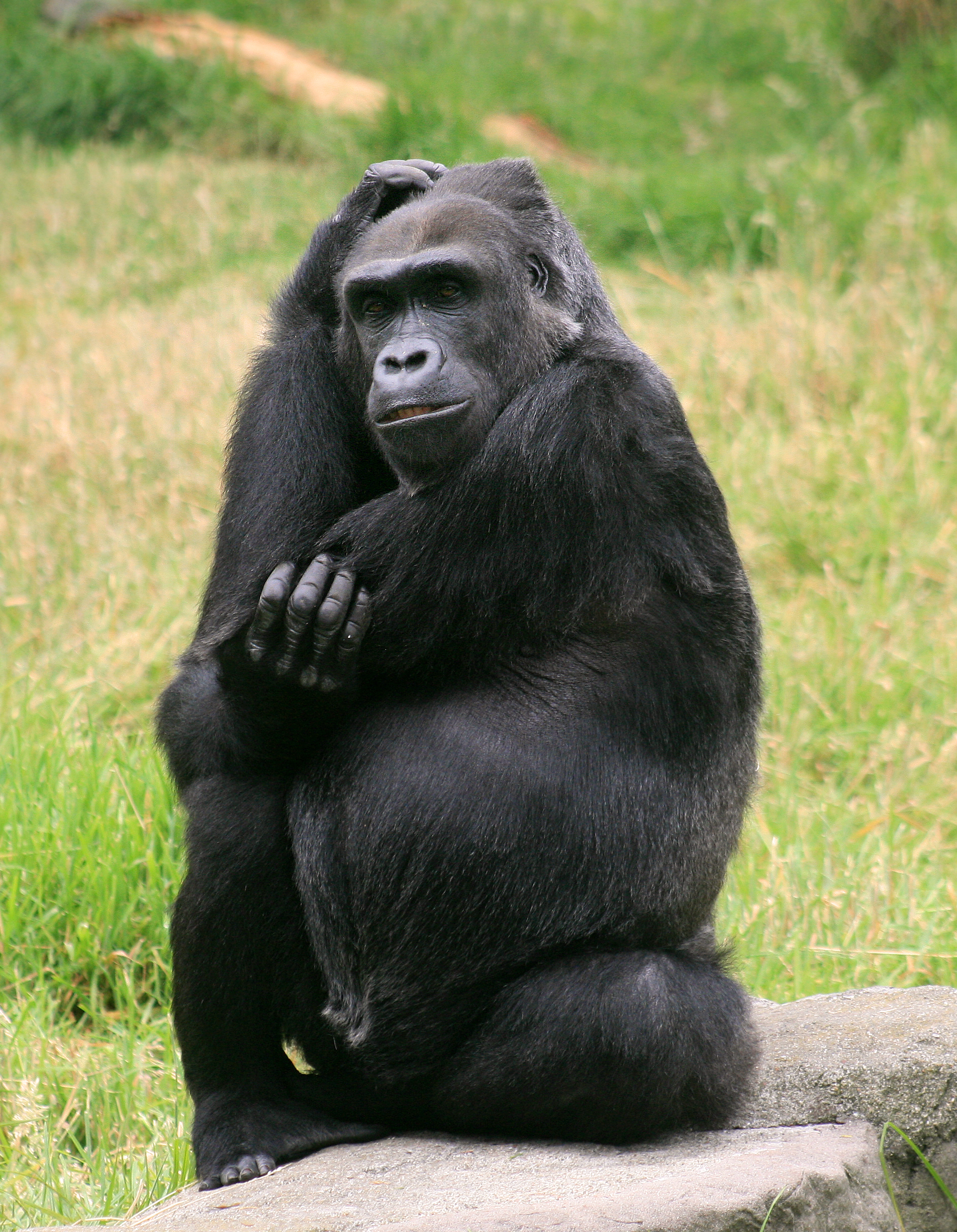 Female Gorilla, Gorilla gorilla in SF zoo